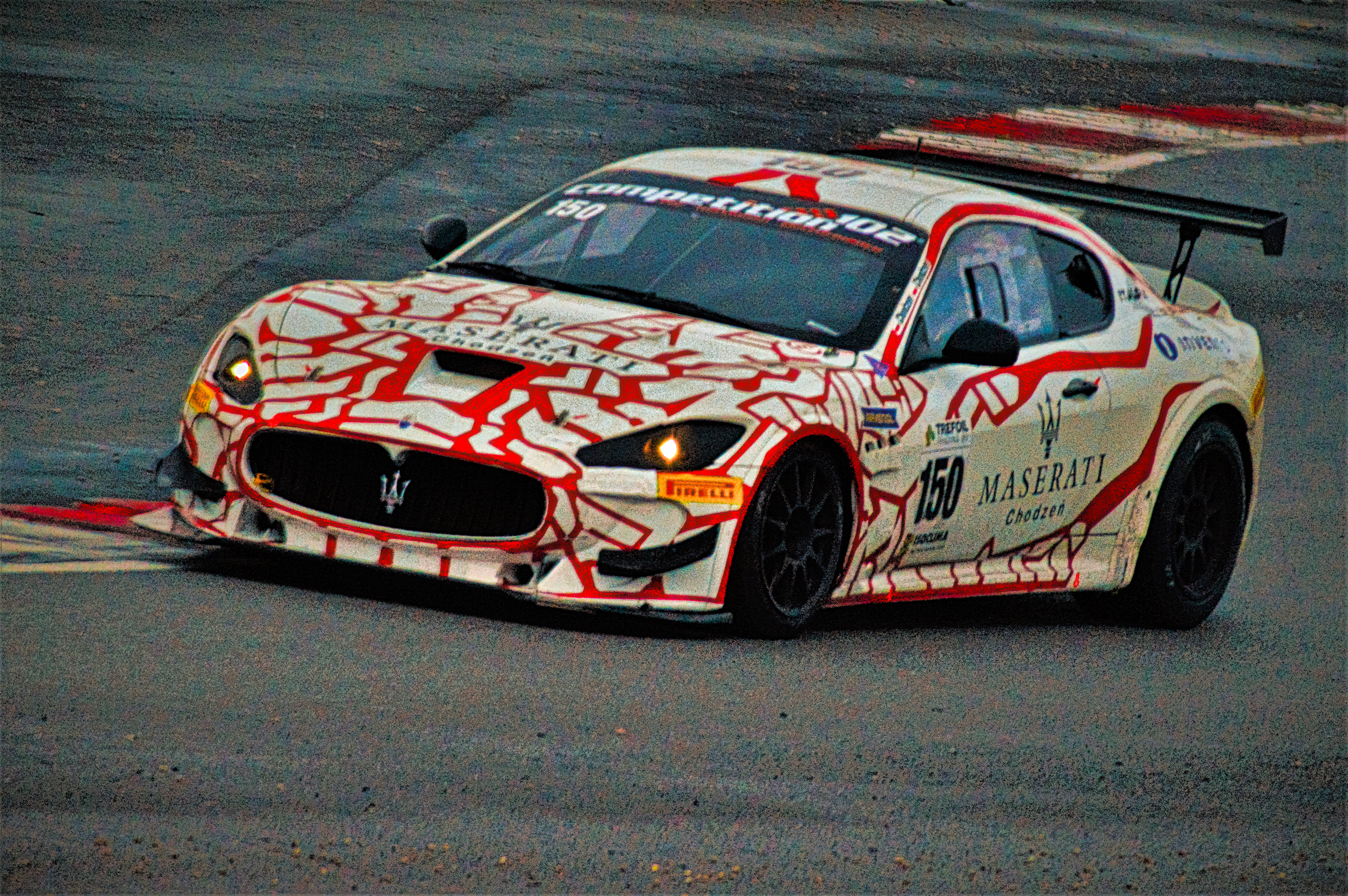 Villorba Corse Maserati Trofeo MC GT4 #150